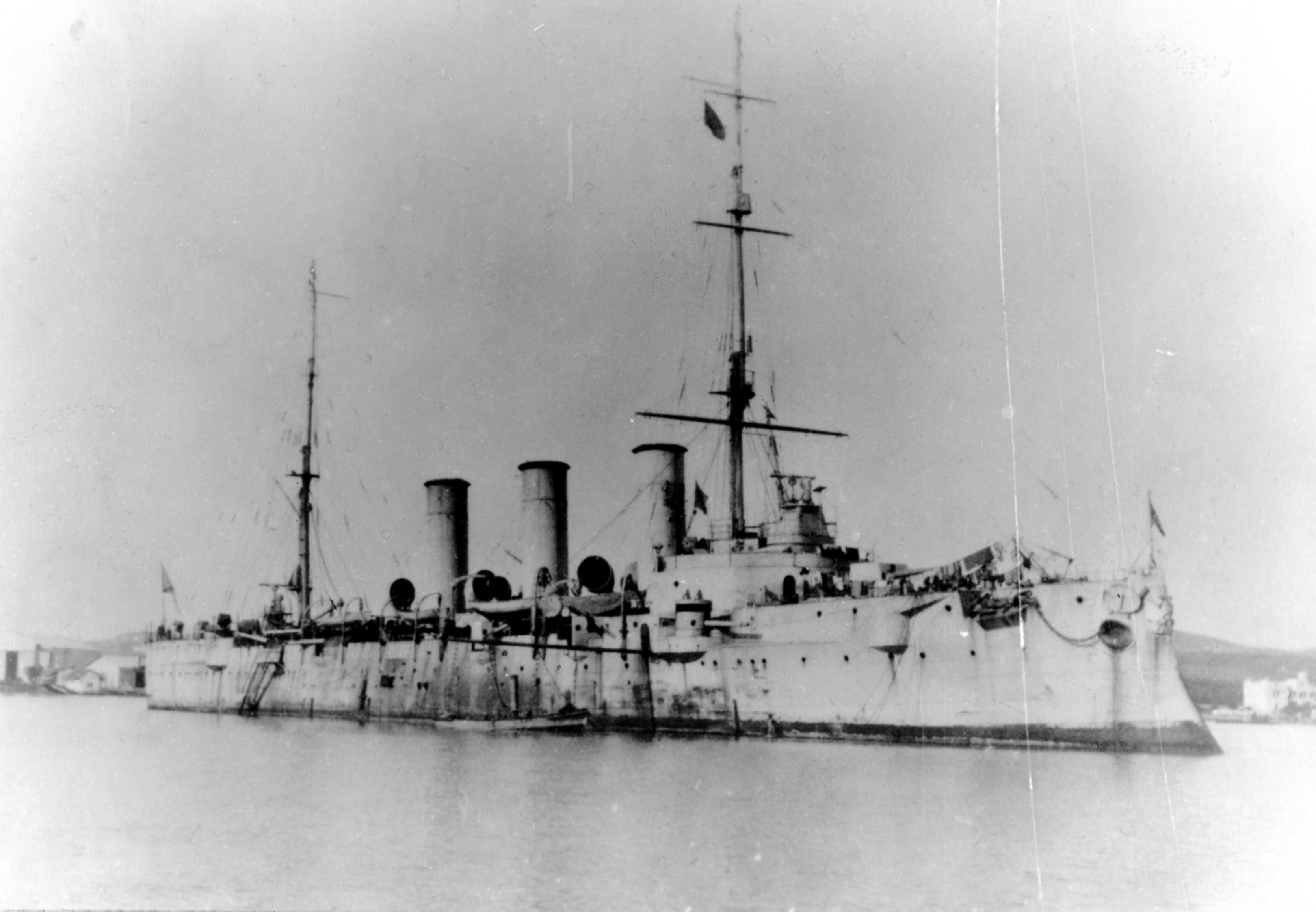 Russian cruiser General Kornilov at Bizerte.